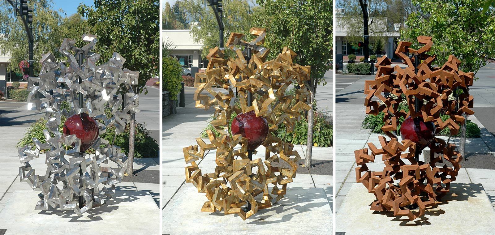 Julian Voss-Andreae Heart of Steel (Hemoglobin), 2005 Weathering steel and glass, height 5’ (1.60 m) Location: 1st Street/”A” Avenue, City of Lake Oswego, Ore. The images show the sculpture right after installation, after 10 days, and after 1 month of exposure to the elements.